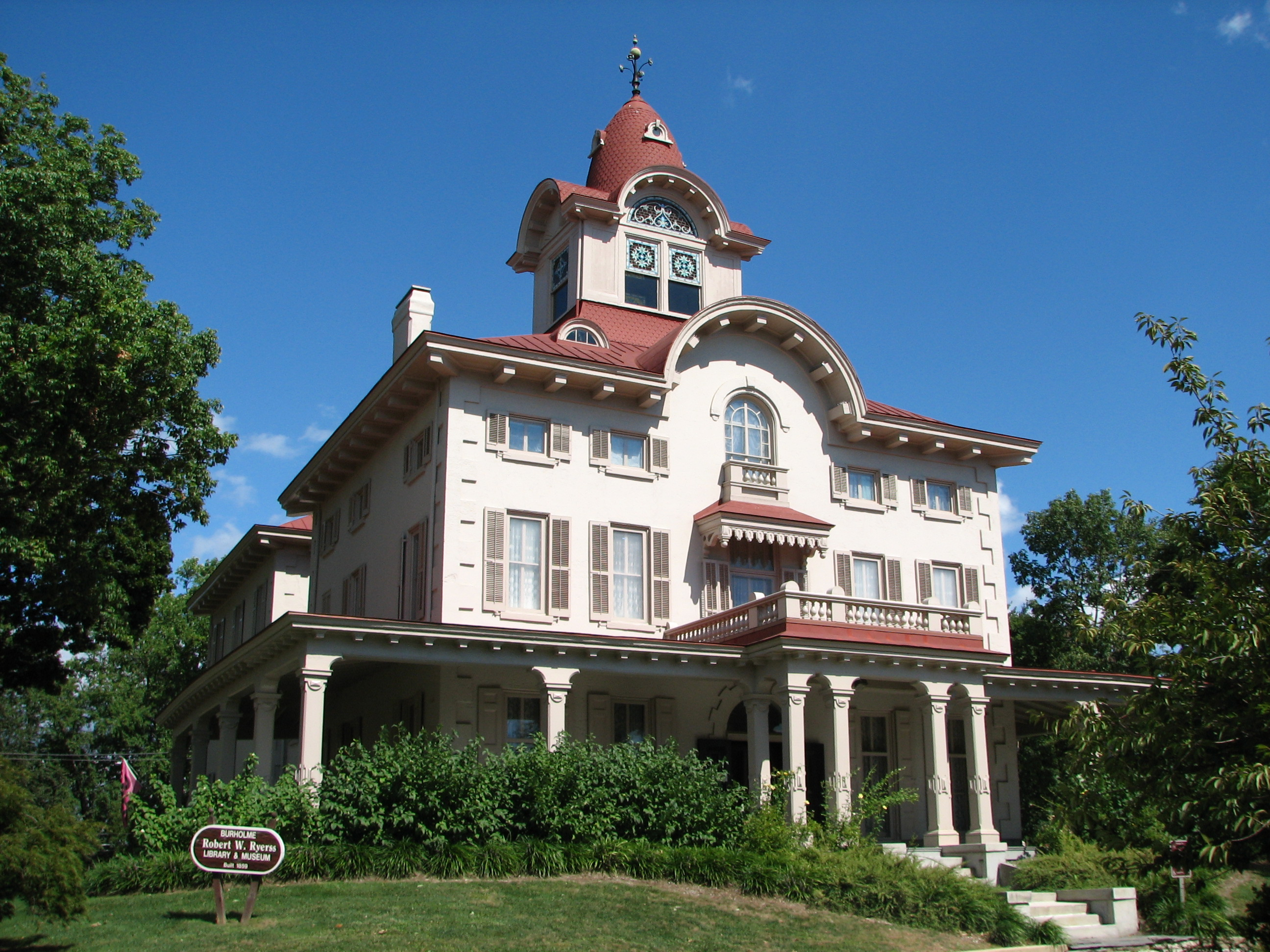 Burholme estate in Burholme Park, Philadelphia, now the Robert W. Ryerss Museum and LibraryBurholme Park